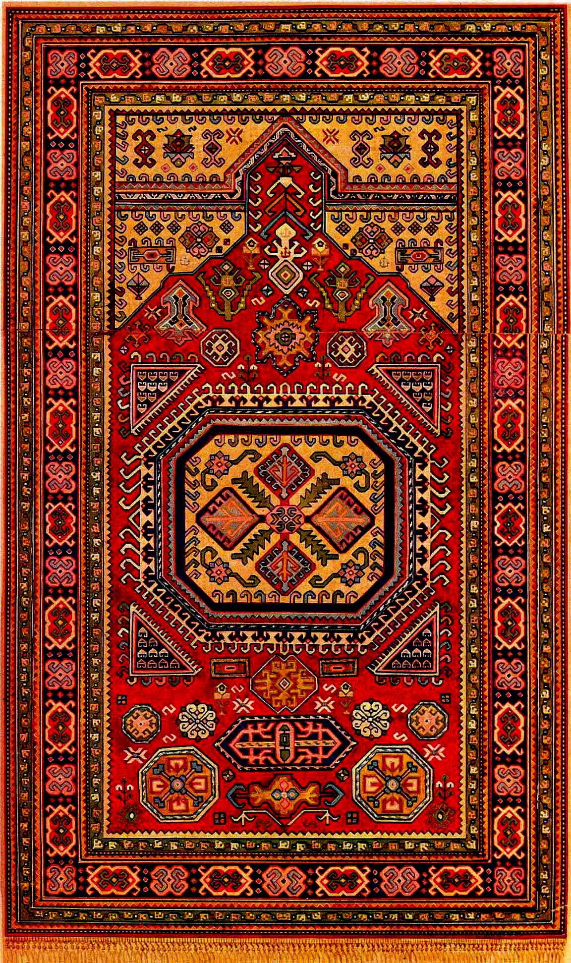 Fakhrali rug, Ganja school, XIX c.